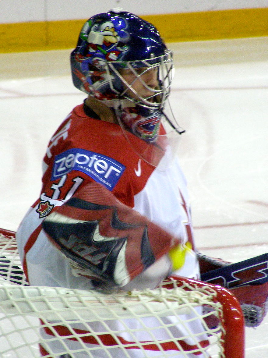 Canadian goaltender Pascal Leclaire in a game against Latvia during the IIHF World Hockey Championship in Halifax, NS, May 4, 2008.